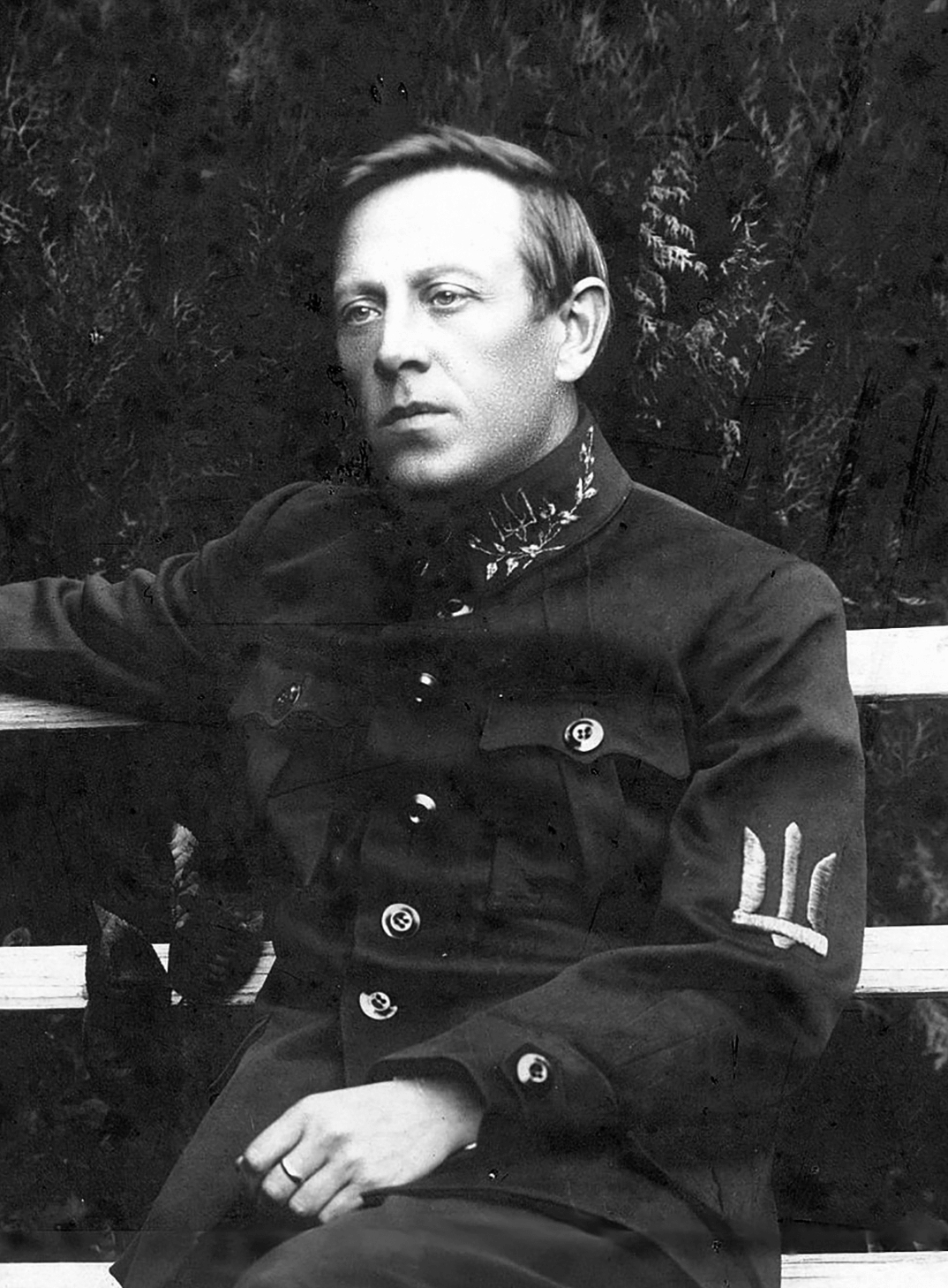 Symon Petlura (1879-1926) - Ukrainian politiciam